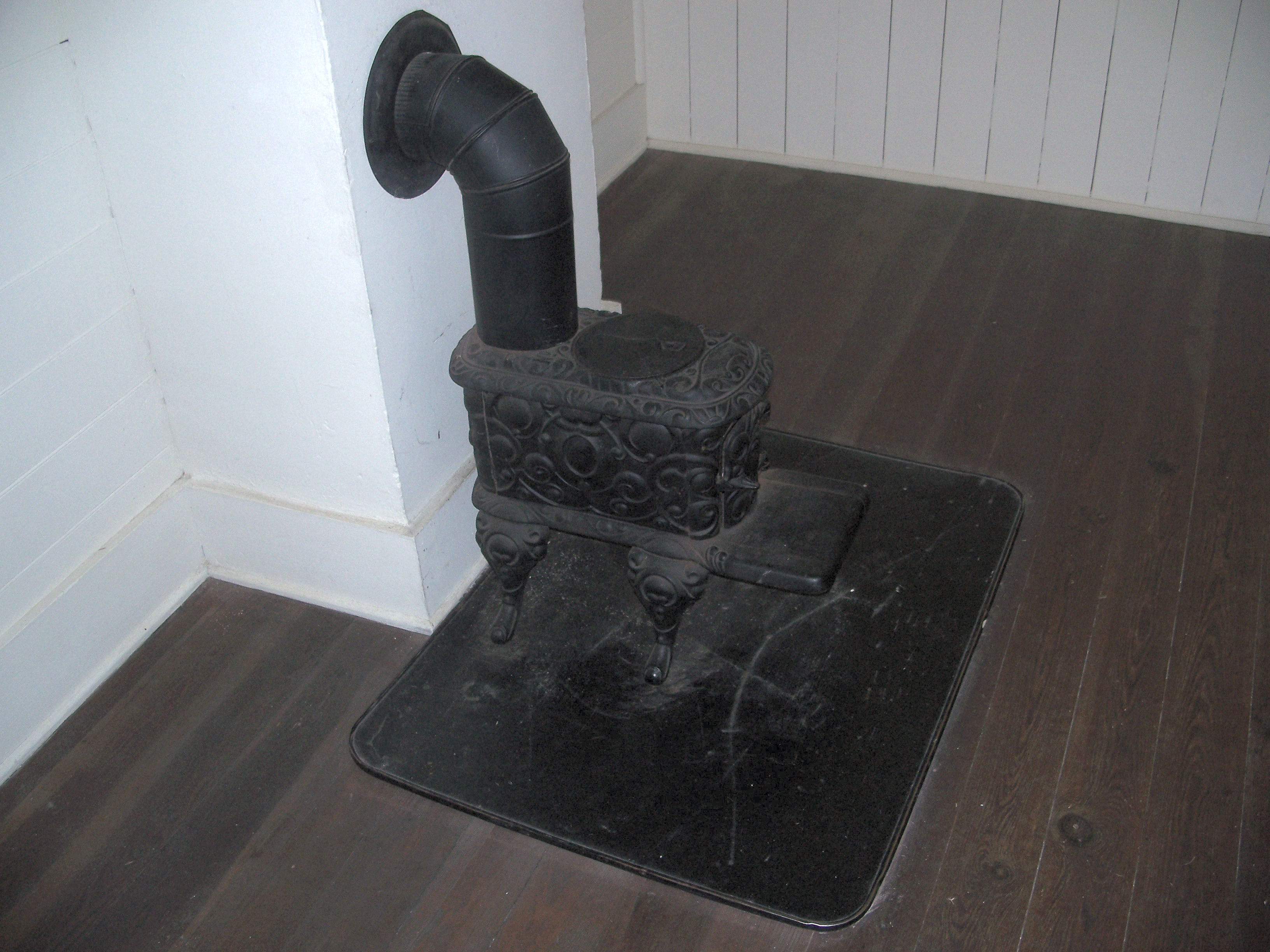 Heater of some kind in the Thursby House in Blue Spring State Park, near Orange City, Florida